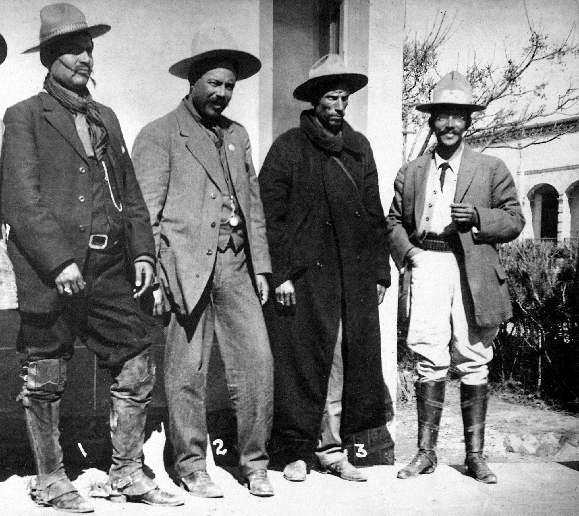 The last four men on the righthand side are, from left to right: Mexican revolutionaries General Rodolfo Fierro, Pancho Villa, General Toribio Ortega and Colonel Juan Medina.